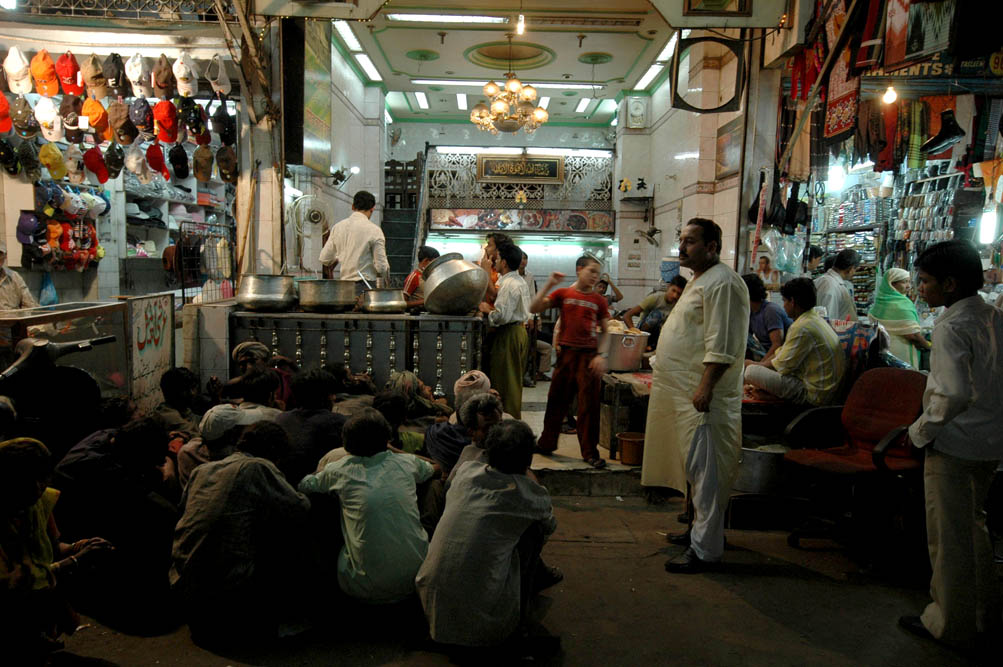 Zakat, or giving of alms is one of the most important aspects of Muslim worship. Here is a group of poor people waiting patiently outside a hotel for the benefactor to come and deliver Zakat : in this case a free night meal!